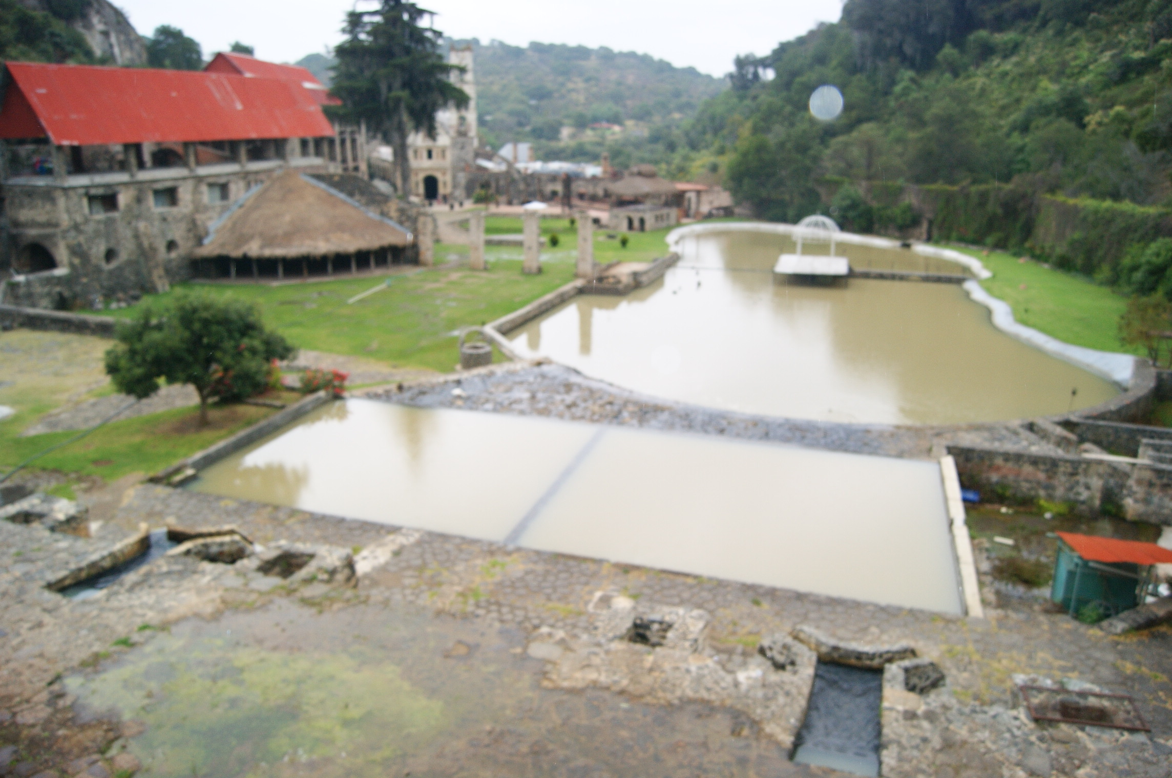 Ex Hacienda de Santa Maria Regla Huasca, Hidalgo, México